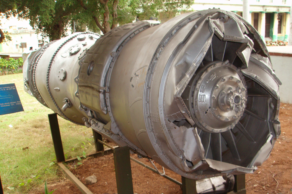 The engine of a Lockheed U-2 which has been brought down above Cuba in the Museum of the Revolution in Havana